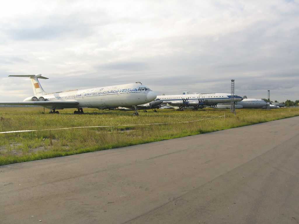 Monino (Moscow Region) - Aviation museum. The first is Ilyushin Il-62, then Tupolev Tu-114. author - lite